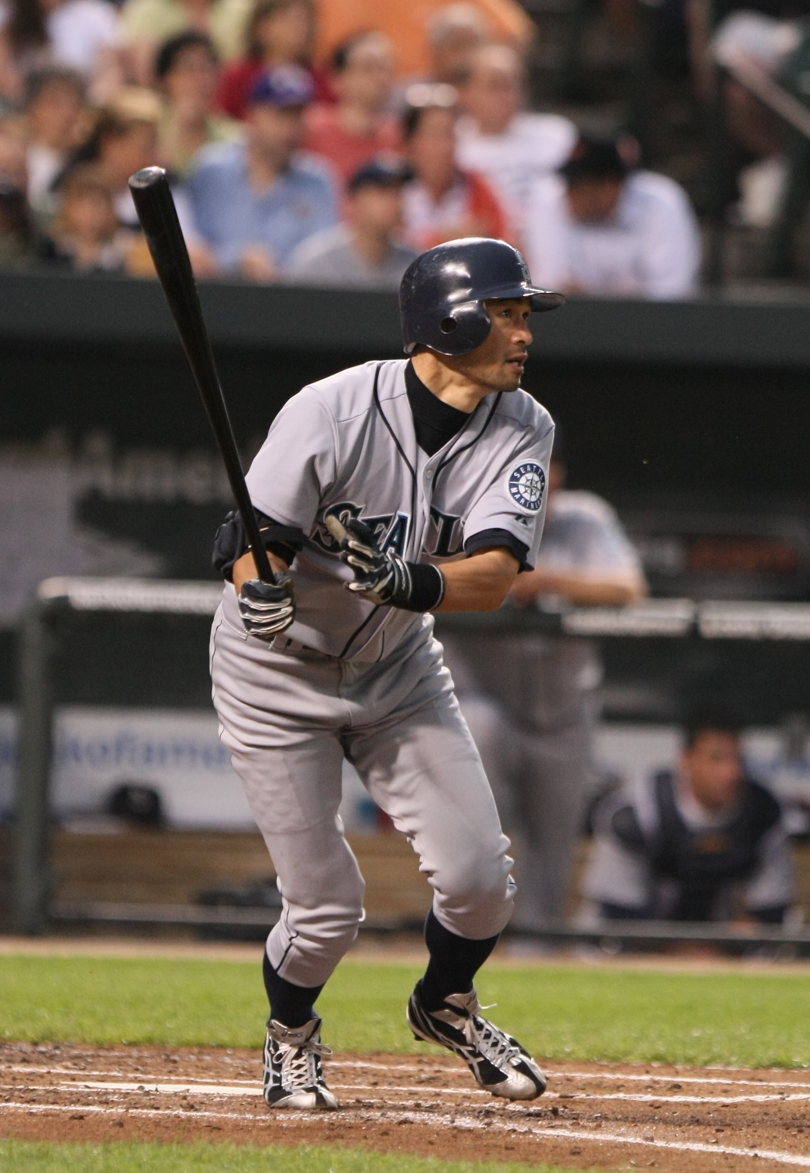 Ichiro Suzuki on June 10, 2009.